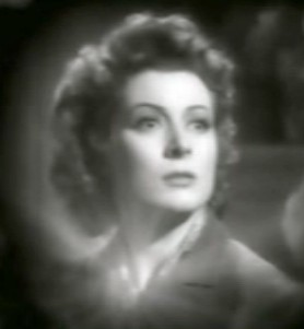 Cropped screenshot of Greer Garson from the trailer for the film Random Harvest